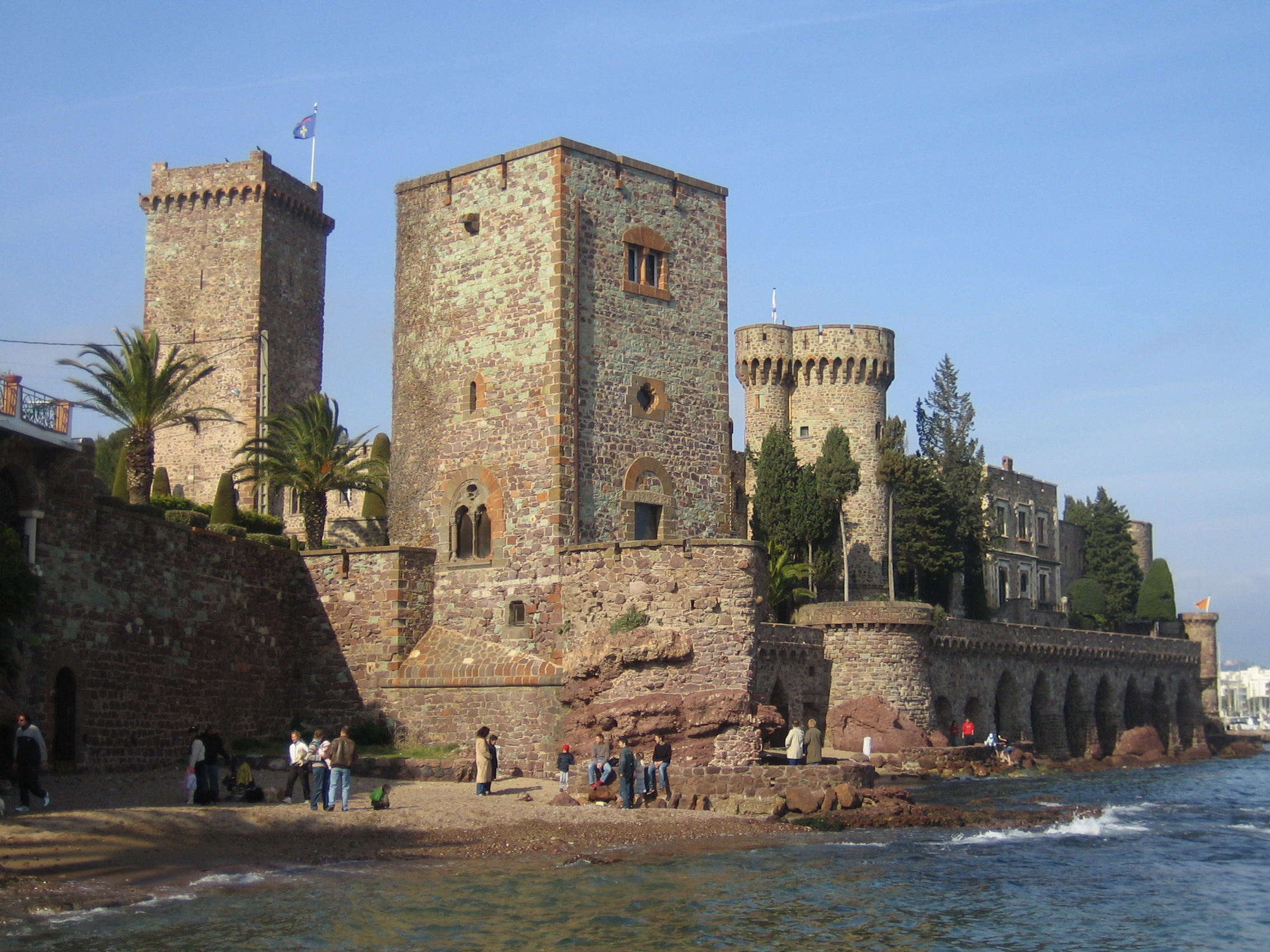 Castle in La Napoule, Provence-Alpes-Côte d'Azur